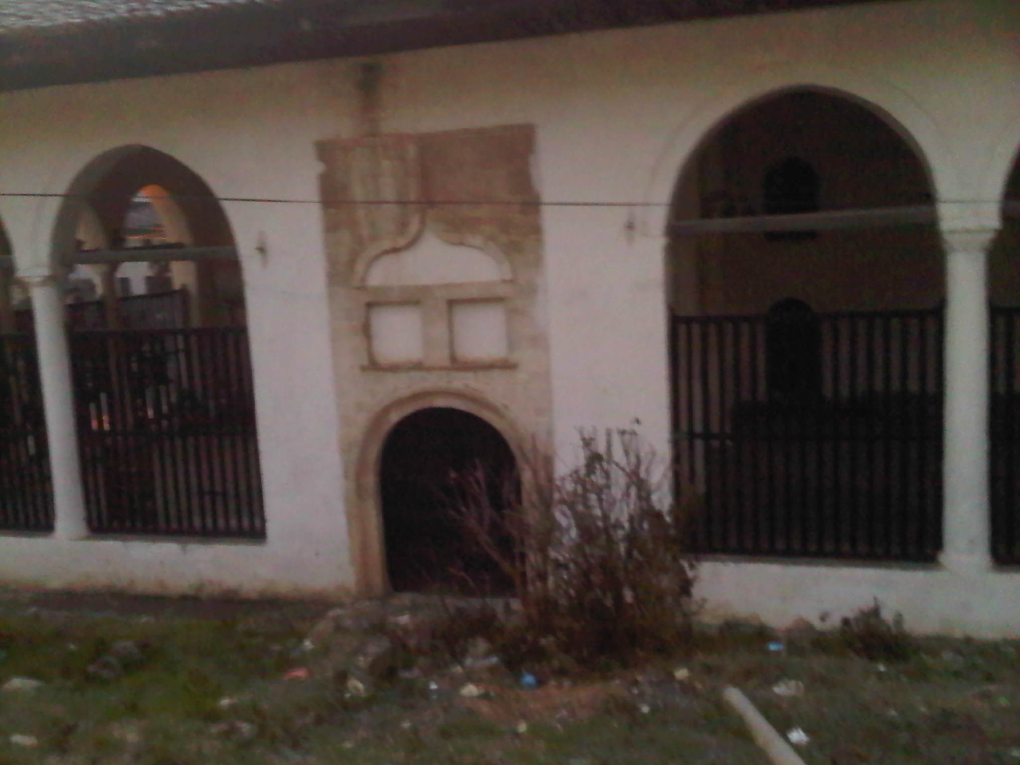 Pjesa balllore e xhamisë Mbret në Berat